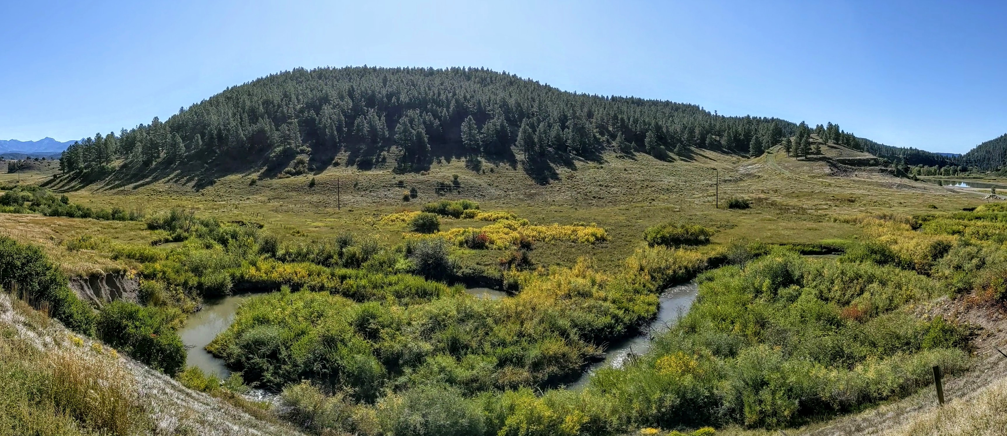 Mill Creek in Archuleta County, Colorado, panoramic view from Light Plant Road